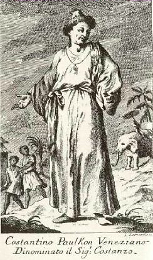 Constantin Phaulkon